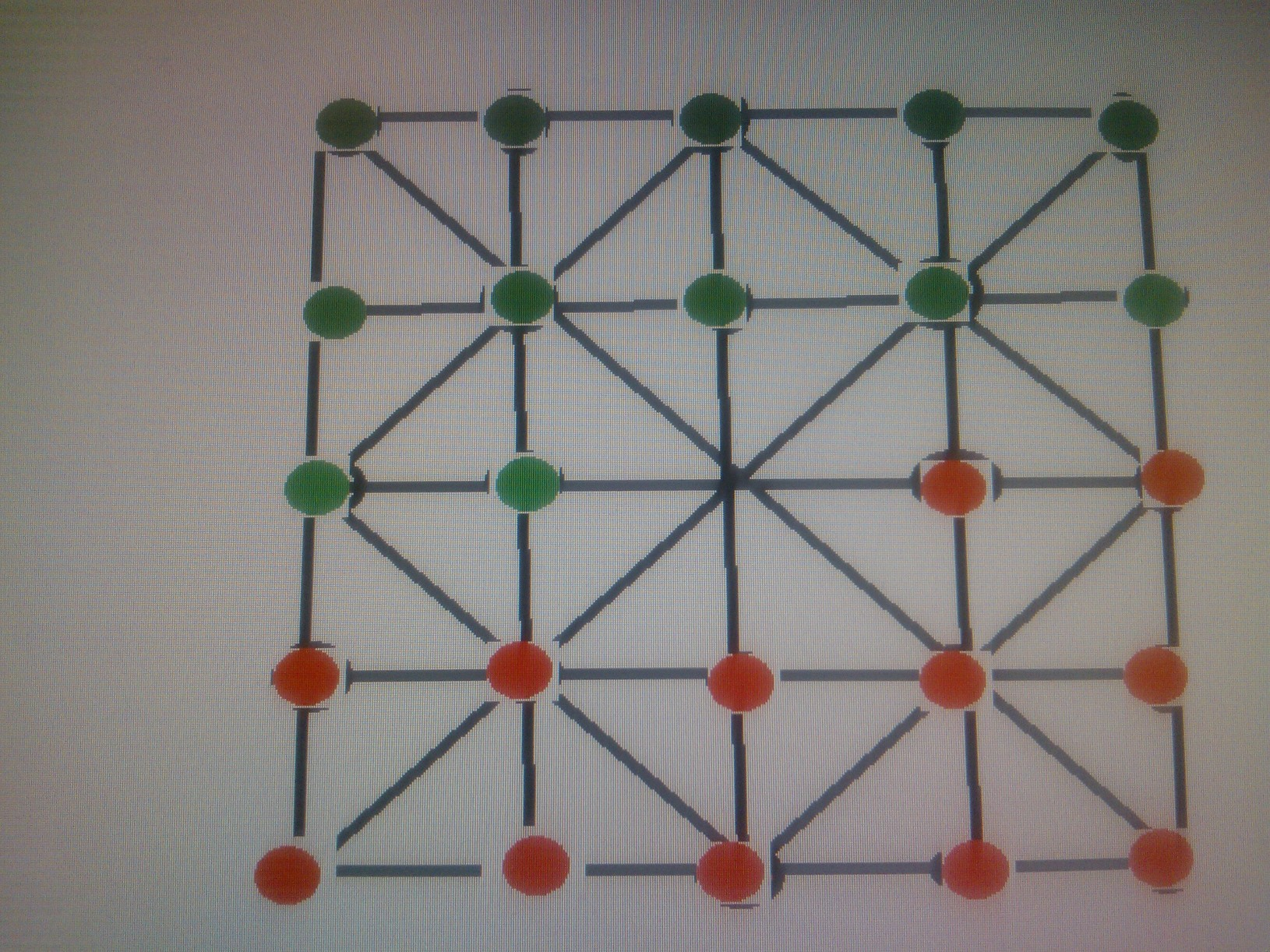 Punjabi game Bara Tahni